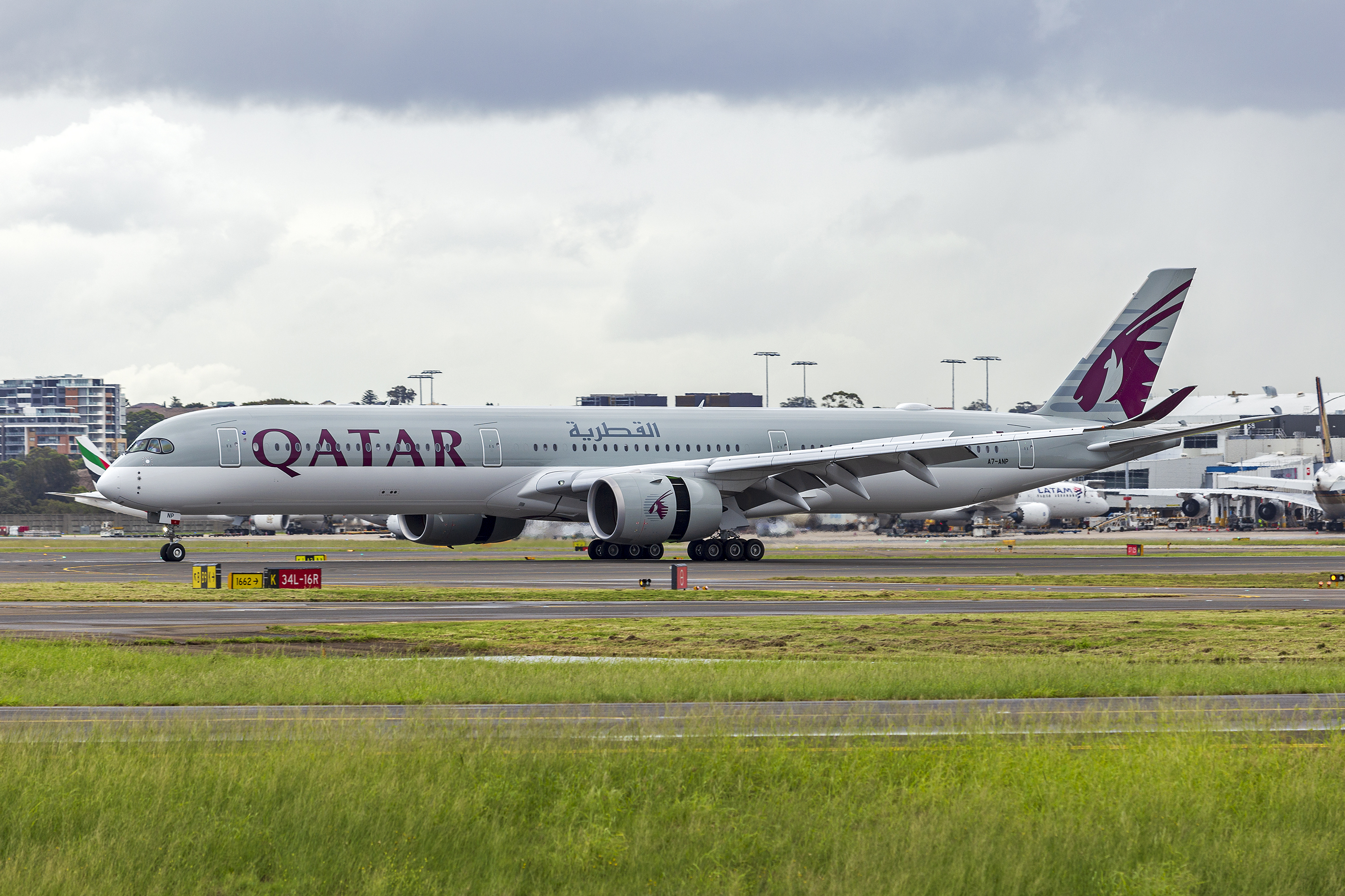 Qatar Airways (A7-ANP) Airbus A350-1041 landing at Sydney Airport.